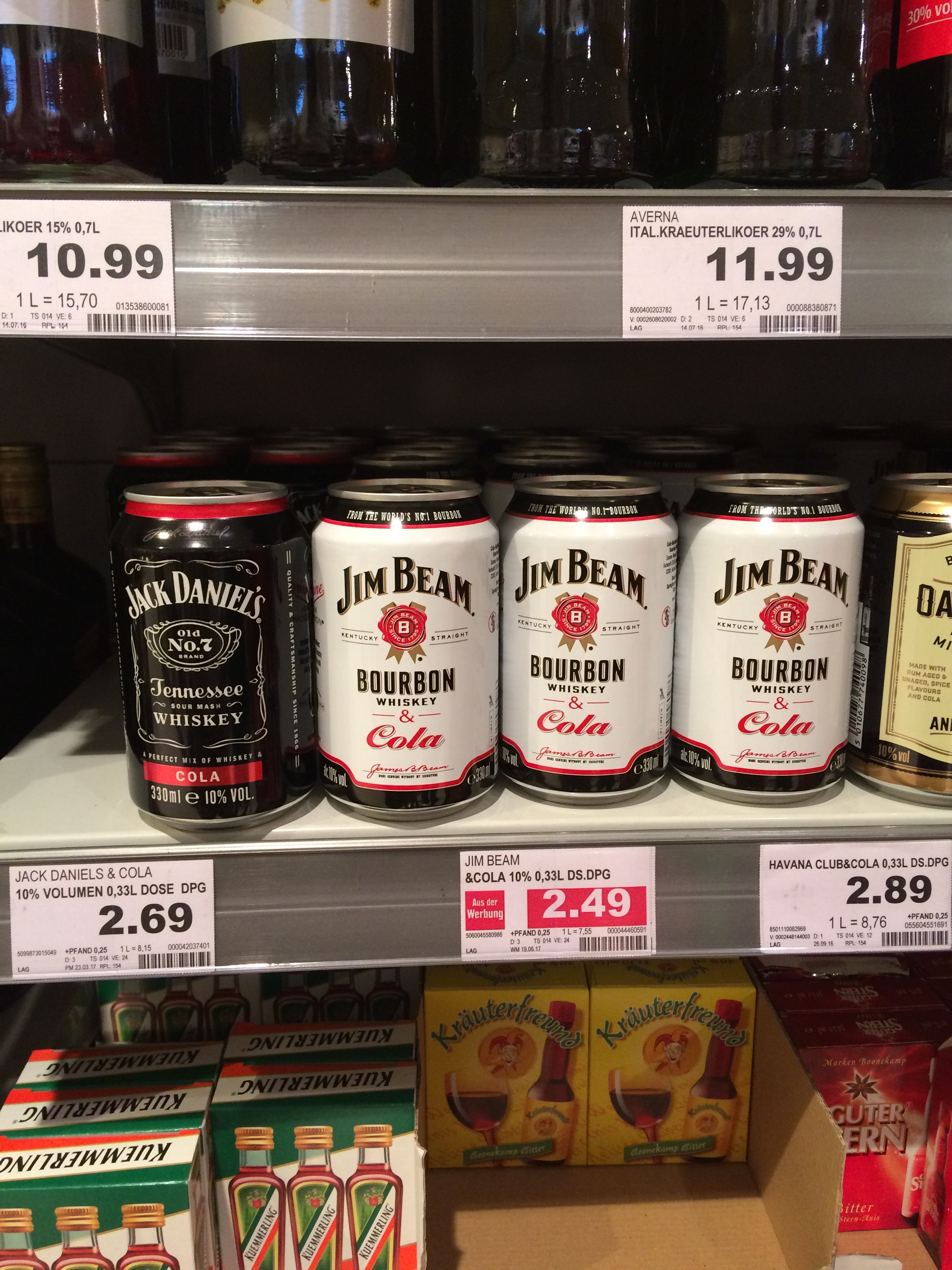 Jim Beam bourbon and cola on display at a German market.